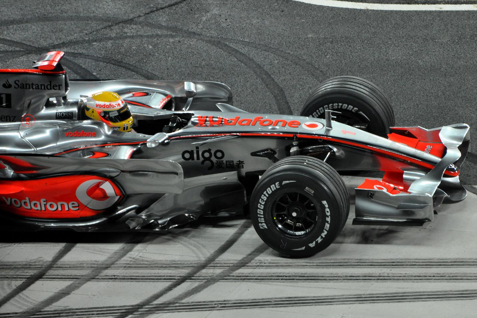 Lewis Hamilton at 2008 Race of Champions, Wembley Stadium